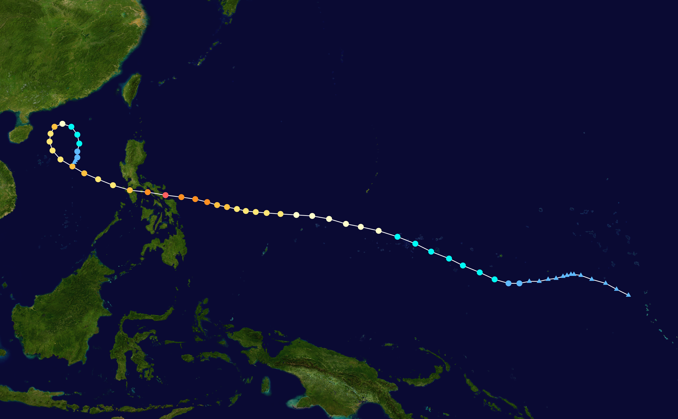 Typhoon Nina (1987) track. Uses the color scheme from the Saffir-Simpson Hurricane Scale.